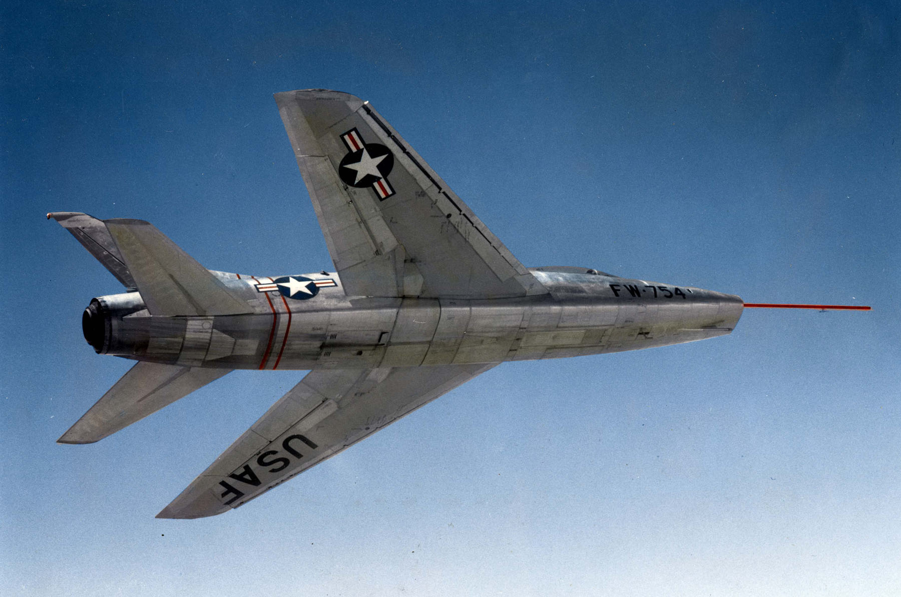 North American YF-100 (SN 52-5754) in flight